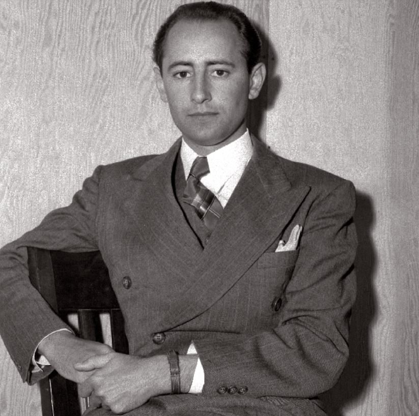 Military missiles were a necessary evil for JPL co-founder, and first director Frank Malina, who later went to work for the United Nations and ultimately turned to a career as a studio artist